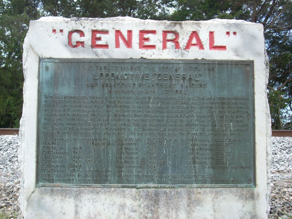 General (Locomotive) Monument, Ringgold (Catoosa County, Georgia) On Highway 151 about 2 miles north of the Ringgold City Hall